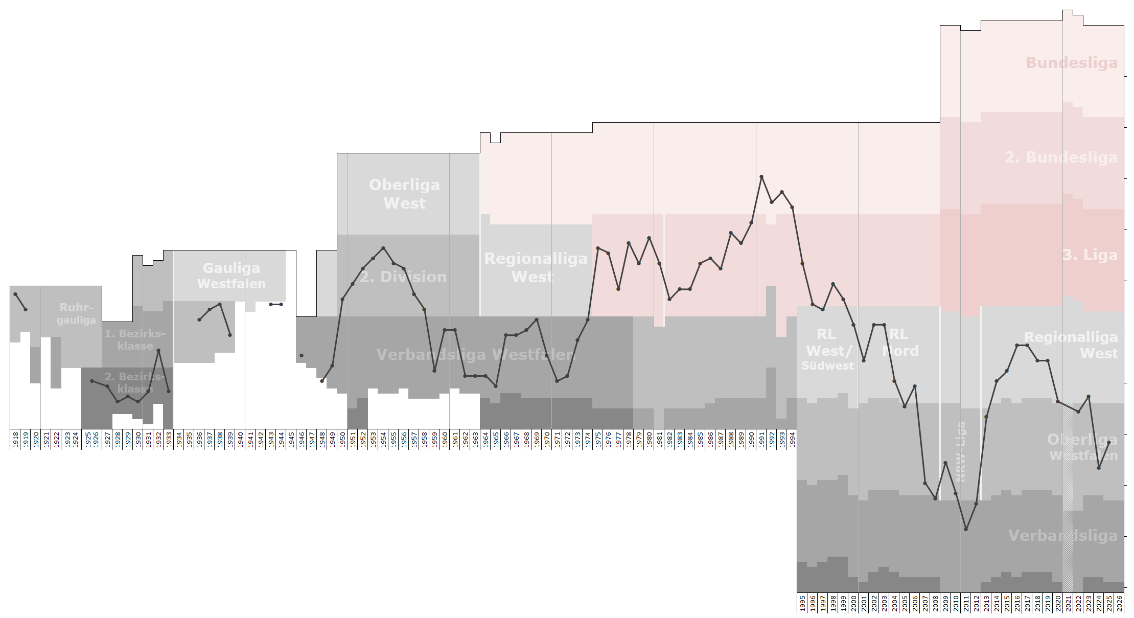 Chart of end-season table positions of Wattenscheid 09 in the football league system of Germany. Data source: RSSSF, wikipedia, f-archiv.de, fussball.de